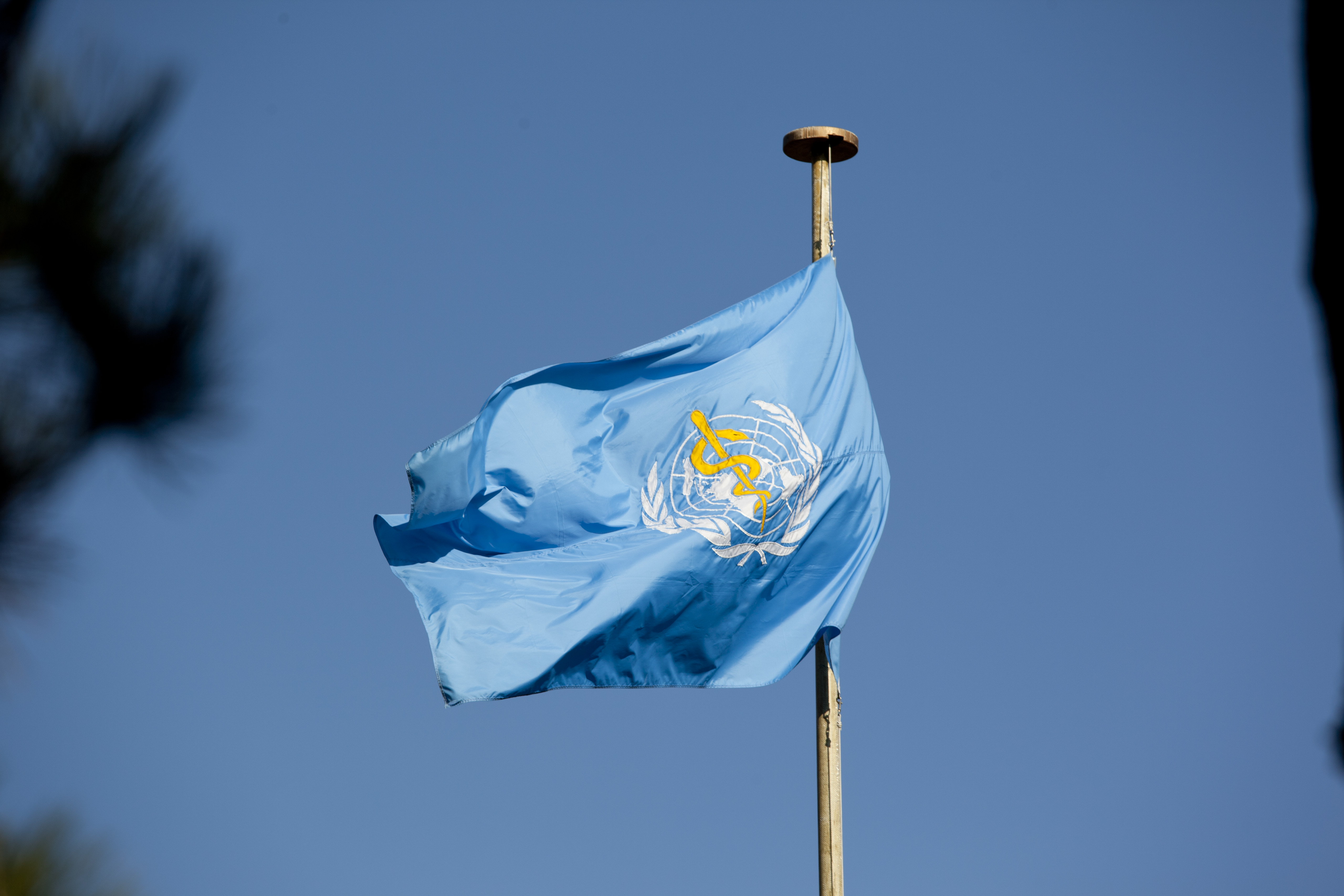 World Health Organization Flag